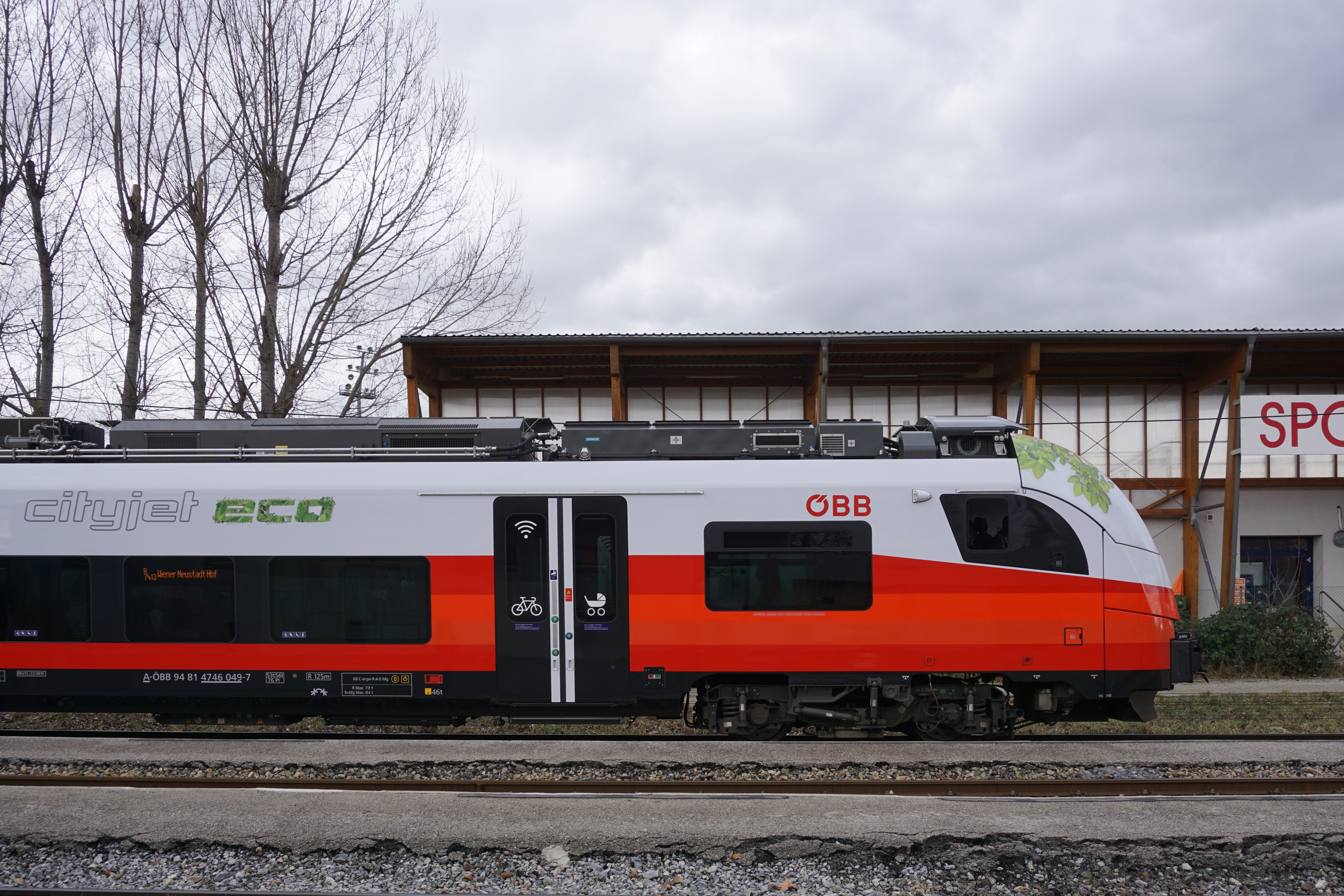 Bahnhof Traiskirchen Aspangbahn